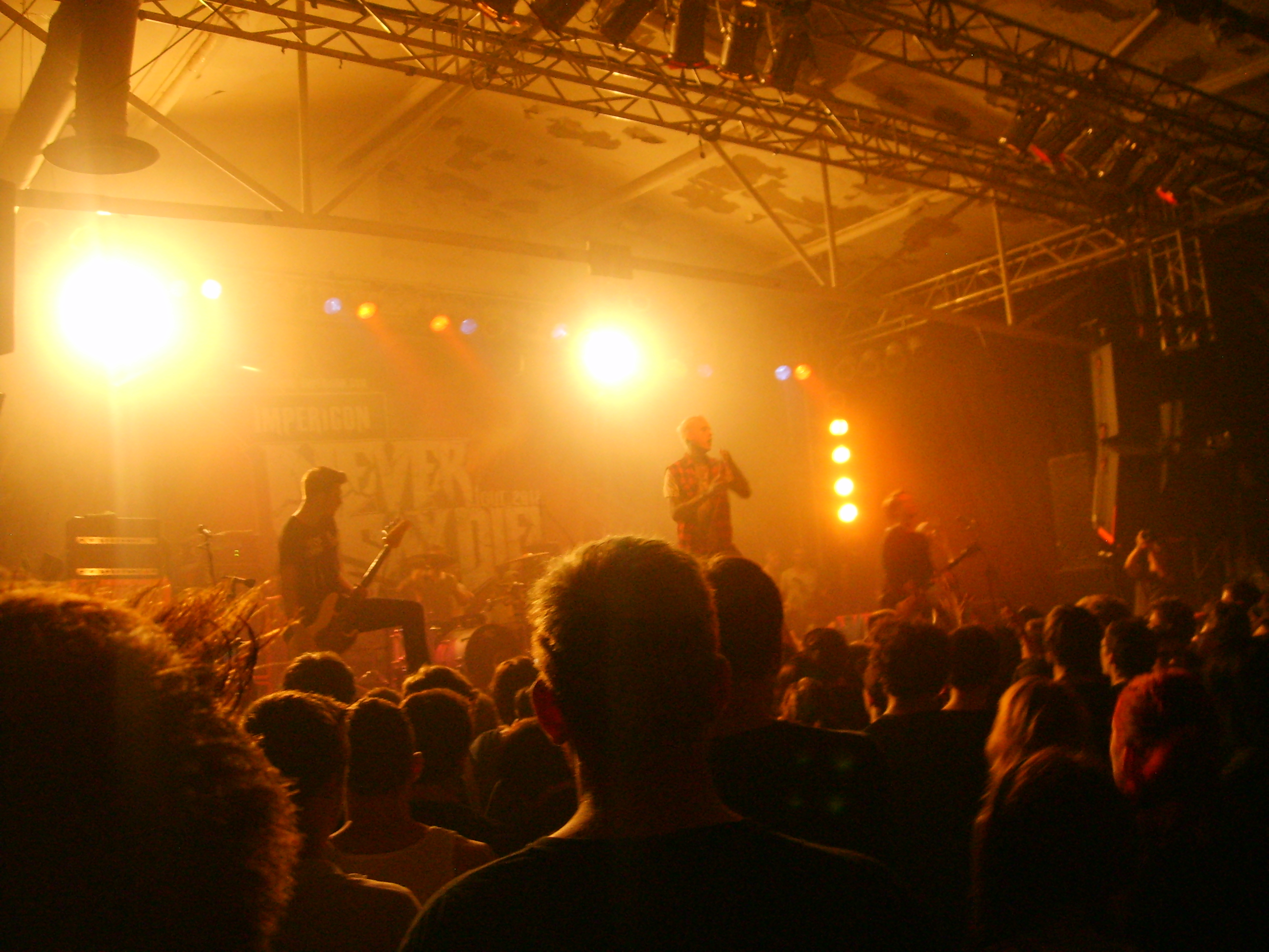 For the Fallen Dreams live at Never Say Die! Tour 2012 in Cologne